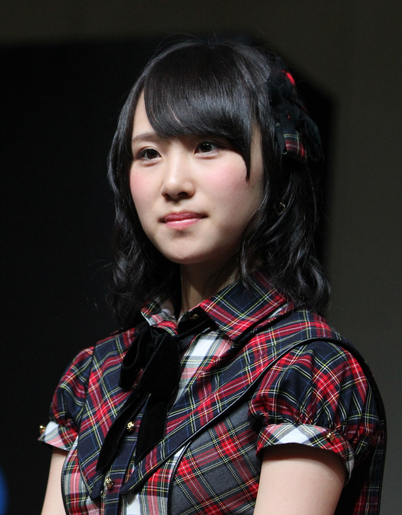 130413 AKB48 at Tokyo Auto Salon Singapore Meet & Greet 2 and Performance